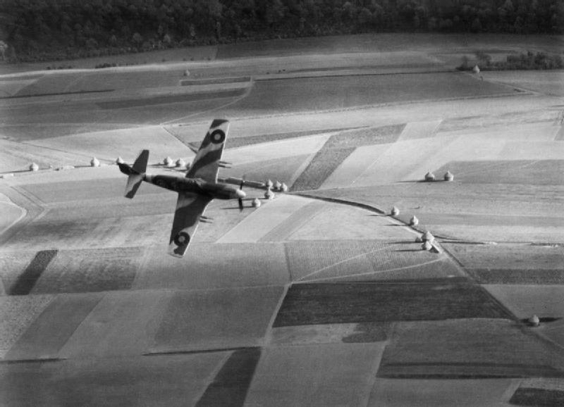 A Royal Air Force North American Mustang Mk I of No. 35 (PR) Wing banks over the French countryside during a tactical reconnaissance sortie, 2 November 1943.